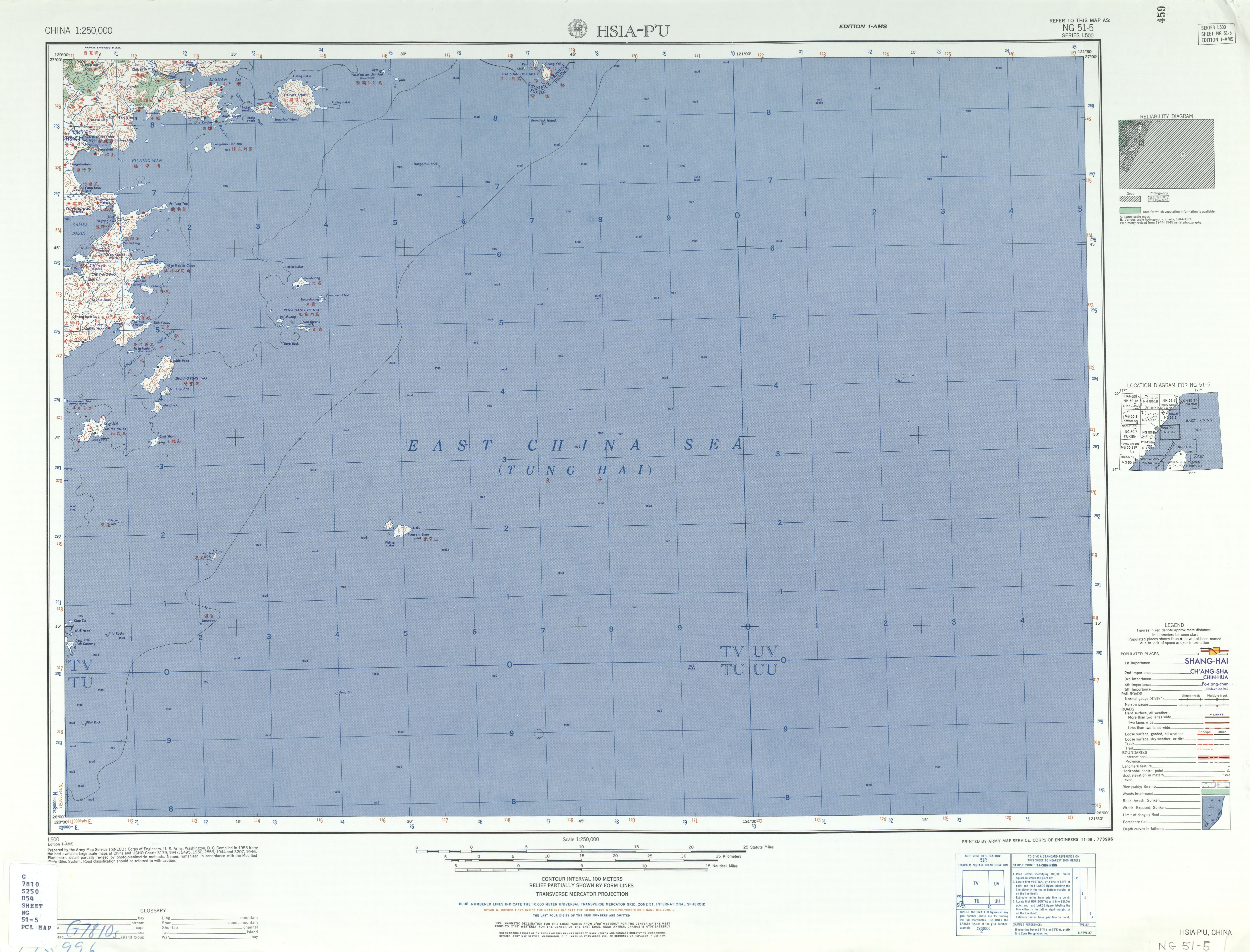 Map of Xiapu County (Hsia-p'u) area, Fujian, China and Dongyin Township and part of Beigan Township (Peikantang) in Lienchiang County (the Matsu Islands), Taiwan (ROC) 1953